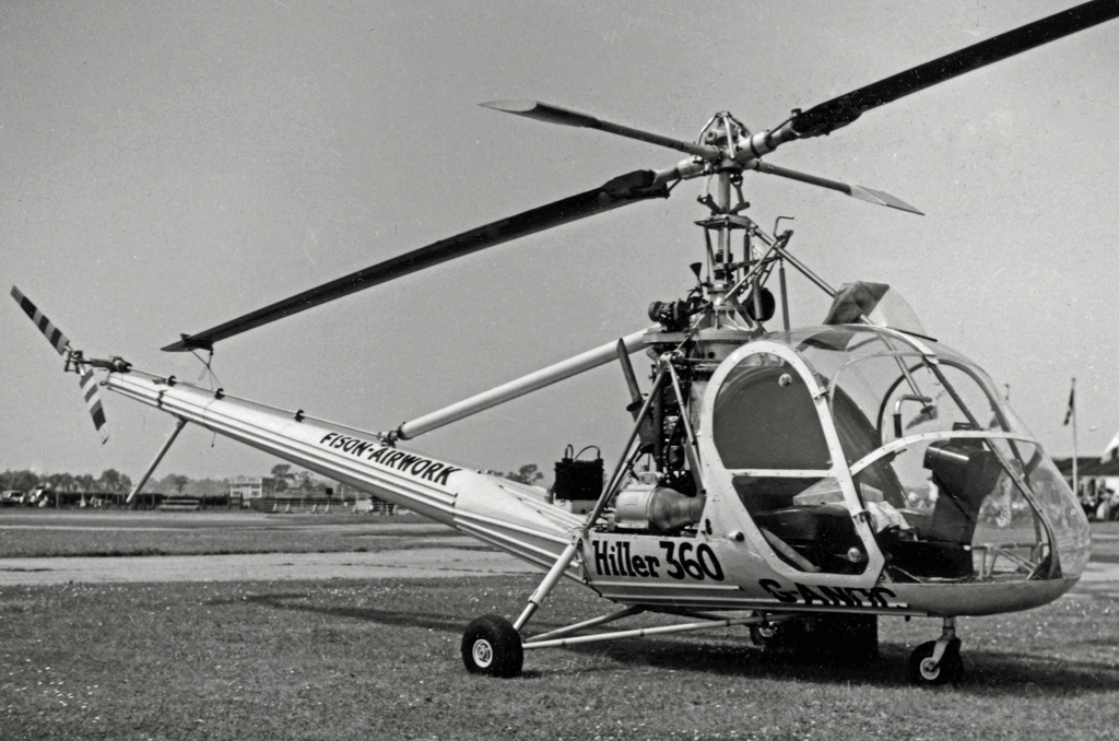 Hiller UH-12A (360) used by Fison-Airwork to demonstrate crop-spraying by helicopter